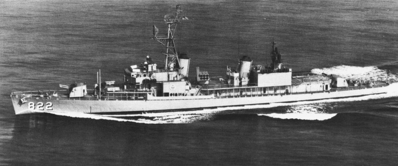 The U.S. Navy destroyer USS Robert H. McCard (DD-822) underway, circa 1978. Robert H. McCard was assigned to the U.S. Naval Reserve.